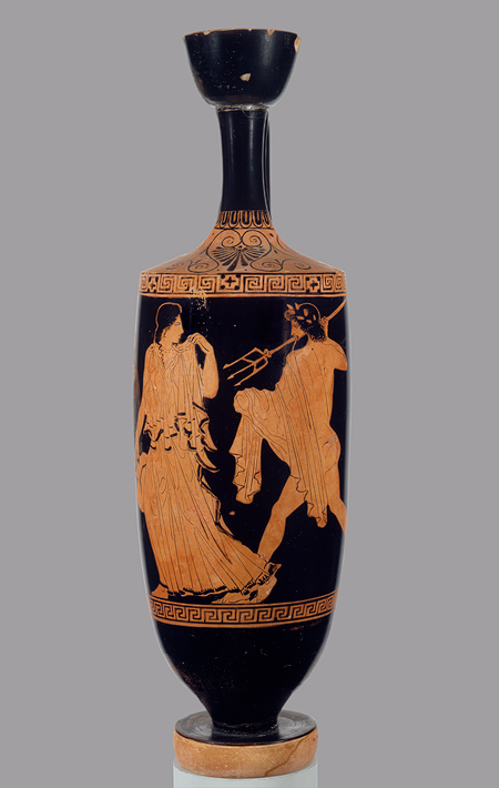 Greek, Attic; Lekythos; Vases